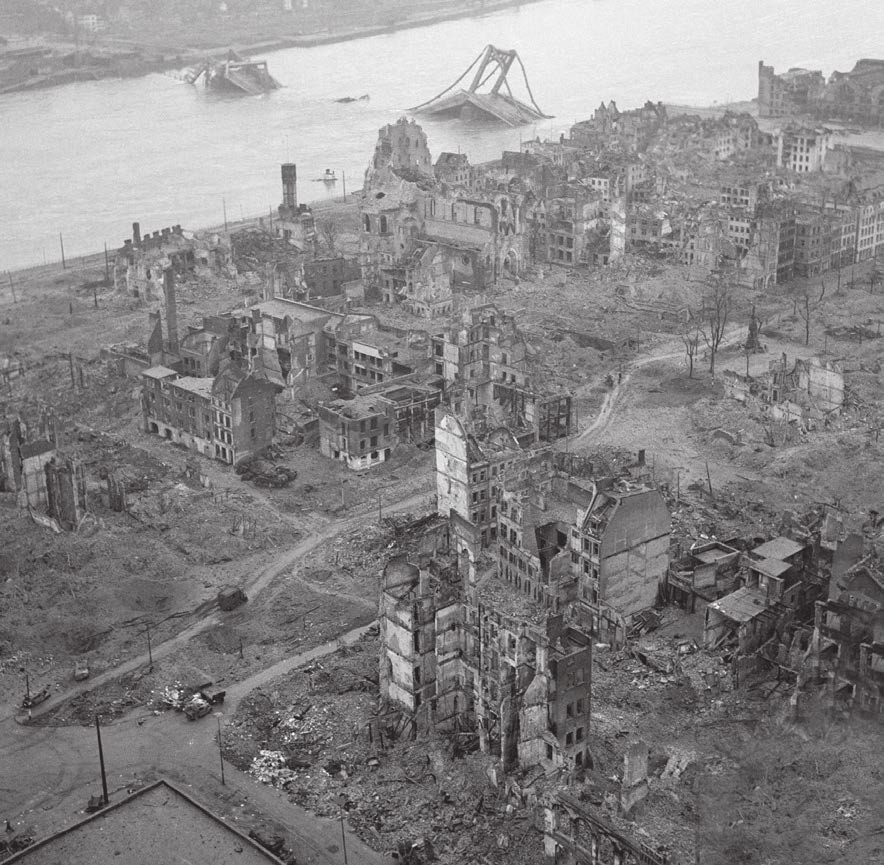 Aerial photo of the effects of bombing Cologne, during WW2.